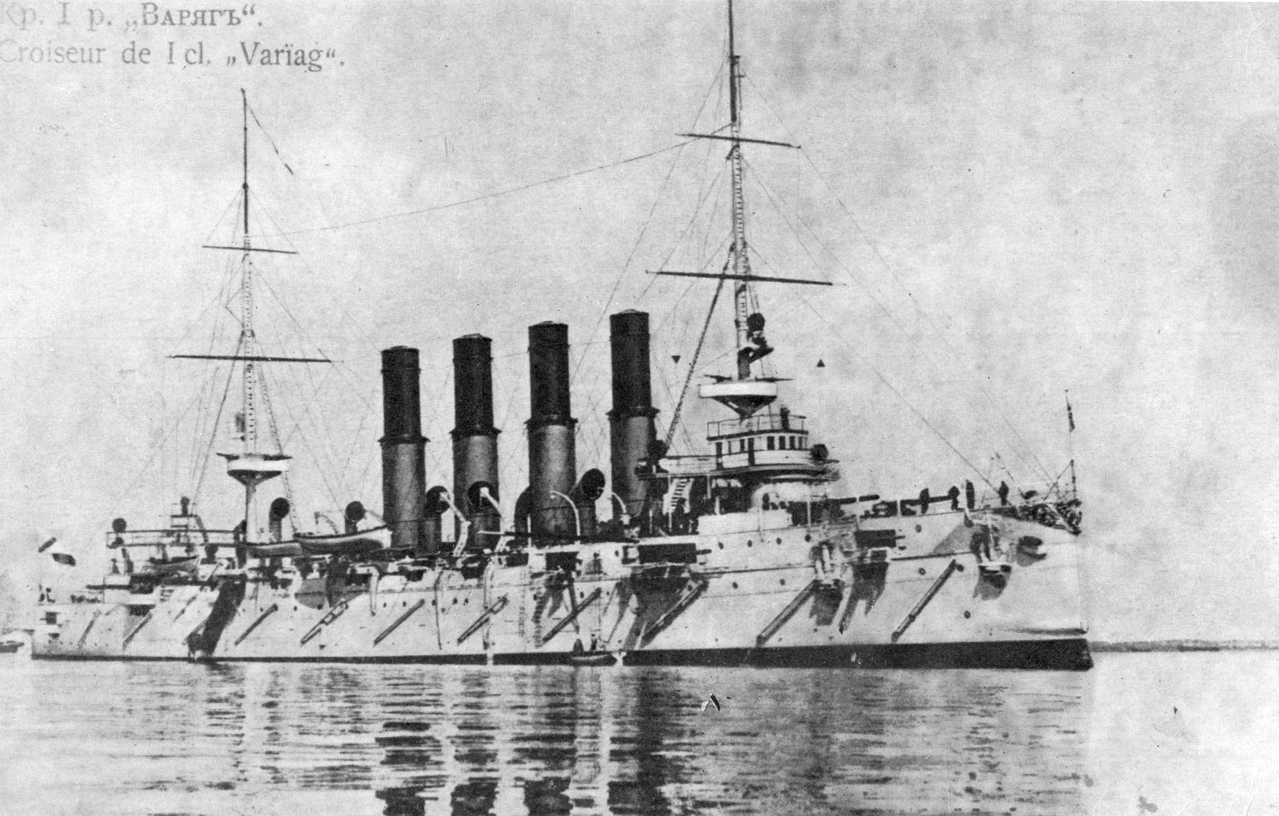 Imperial Russian cruiser Vaiag at Kronstadt, May 1901.